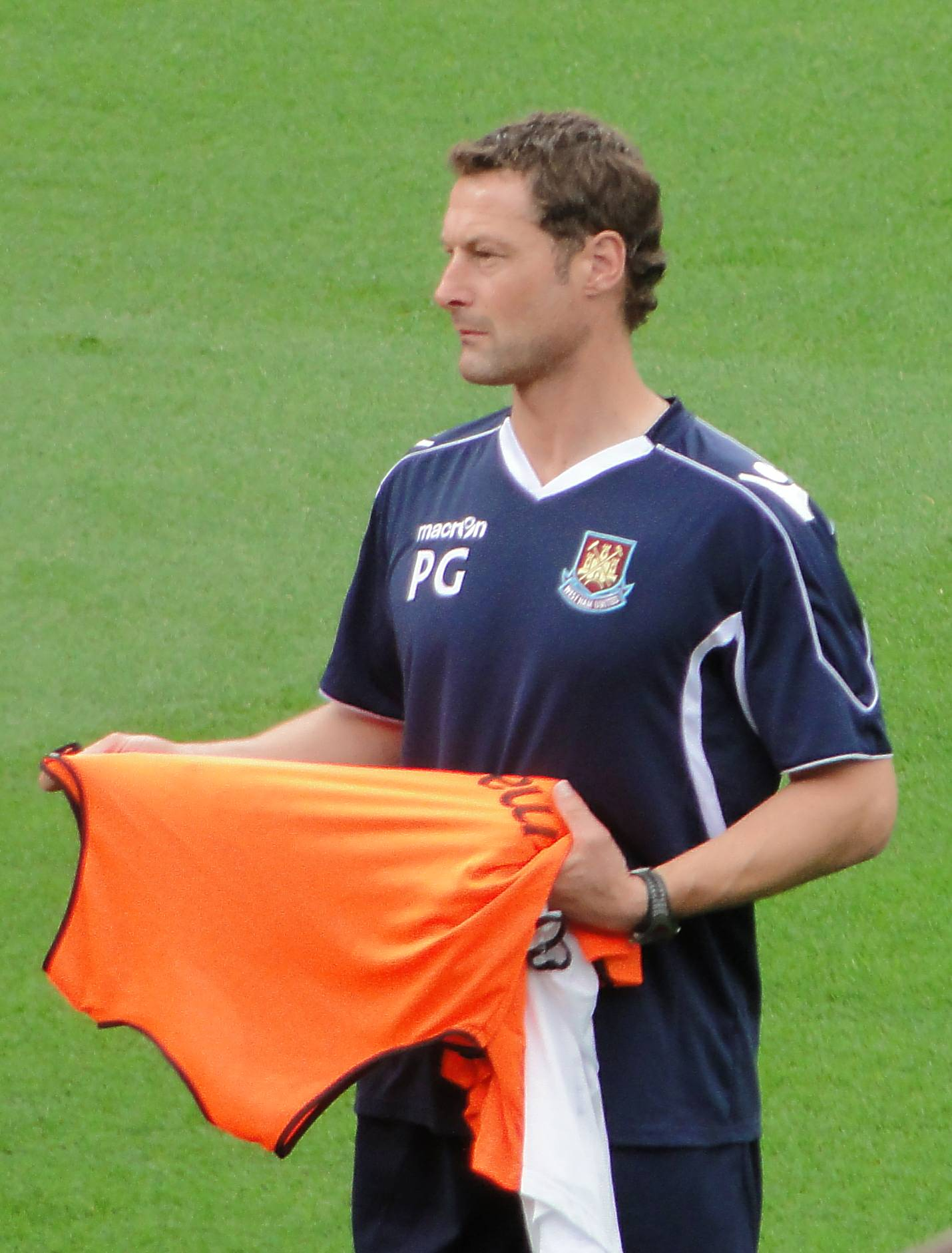 West Ham coach Paul Groves before their home game against Bolton Wanderers, 21 August 2010